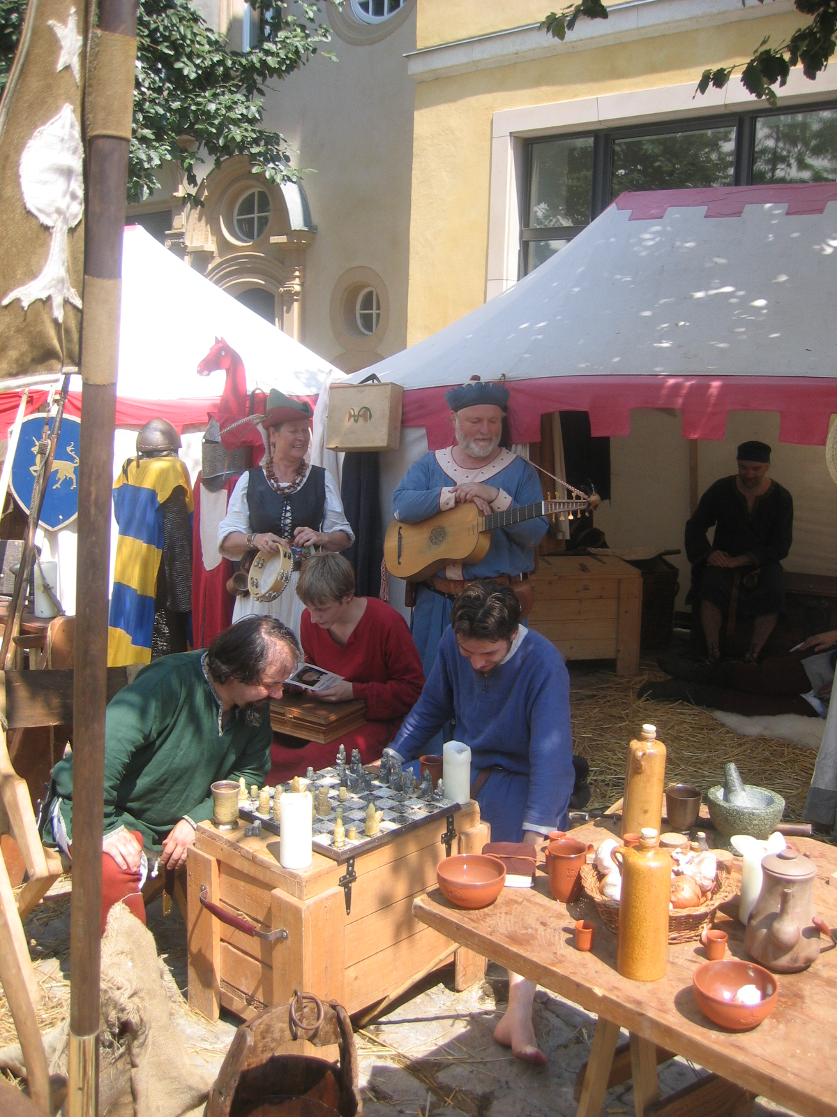 Camp of Milites Viennensis (from Vianden) at Anno Domini 1408 in Luxembourg city.